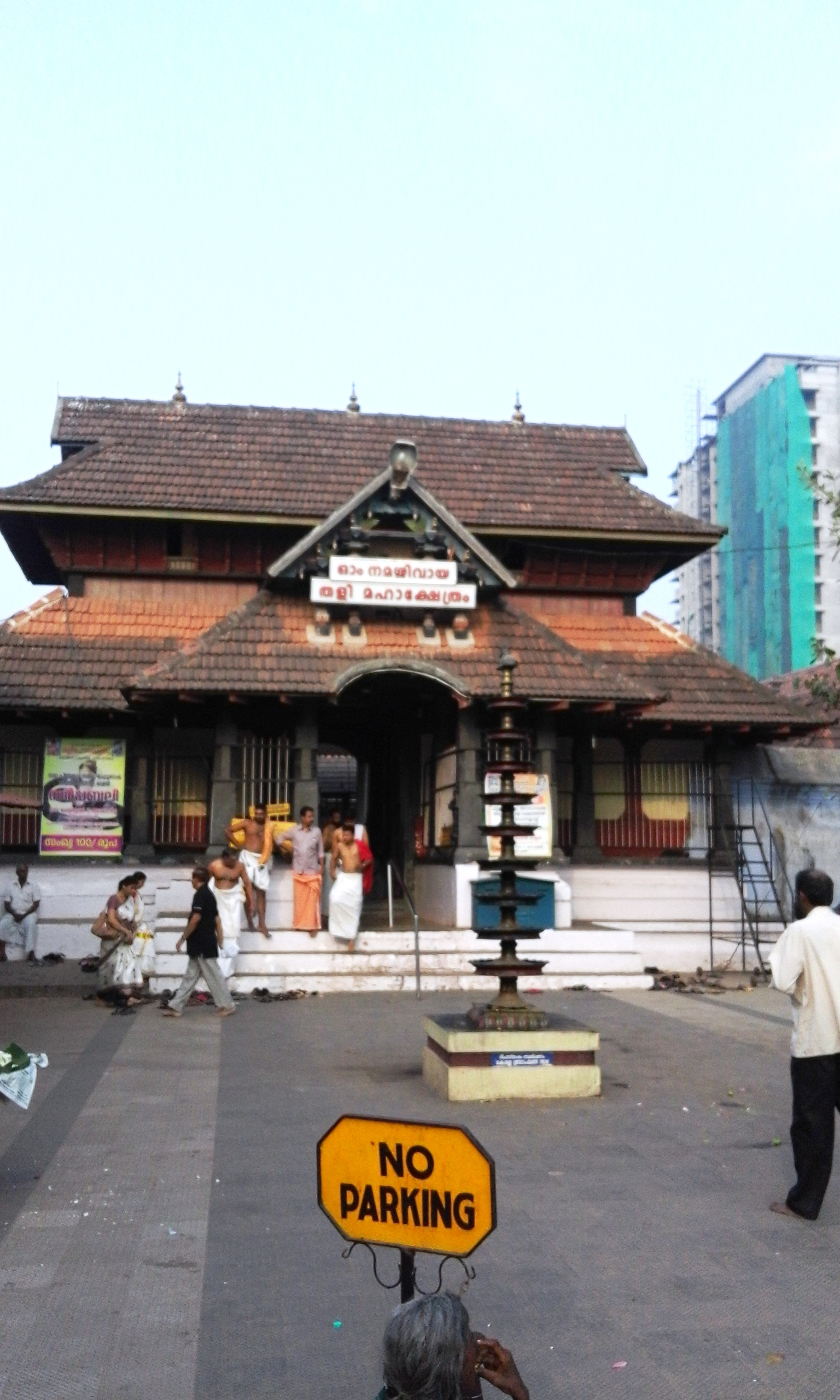 Kozhikode District, Kerala province, India.